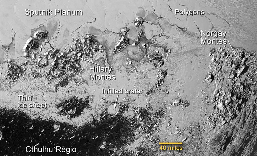 July 24, 2015 New Horizons Discovers Flowing Ices on Pluto (higher resolution version?) This annotated image of the southern region of Sputnik Planum illustrates its complexity, including the polygonal shapes of Pluto’s icy plains, its two mountain ranges, and a region where it appears that ancient, heavily-cratered terrain has been invaded by much newer icy deposits. The large crater highlighted in the image is about 30 miles (50 kilometers) wide, approximately the size of the greater Washington, DC area.